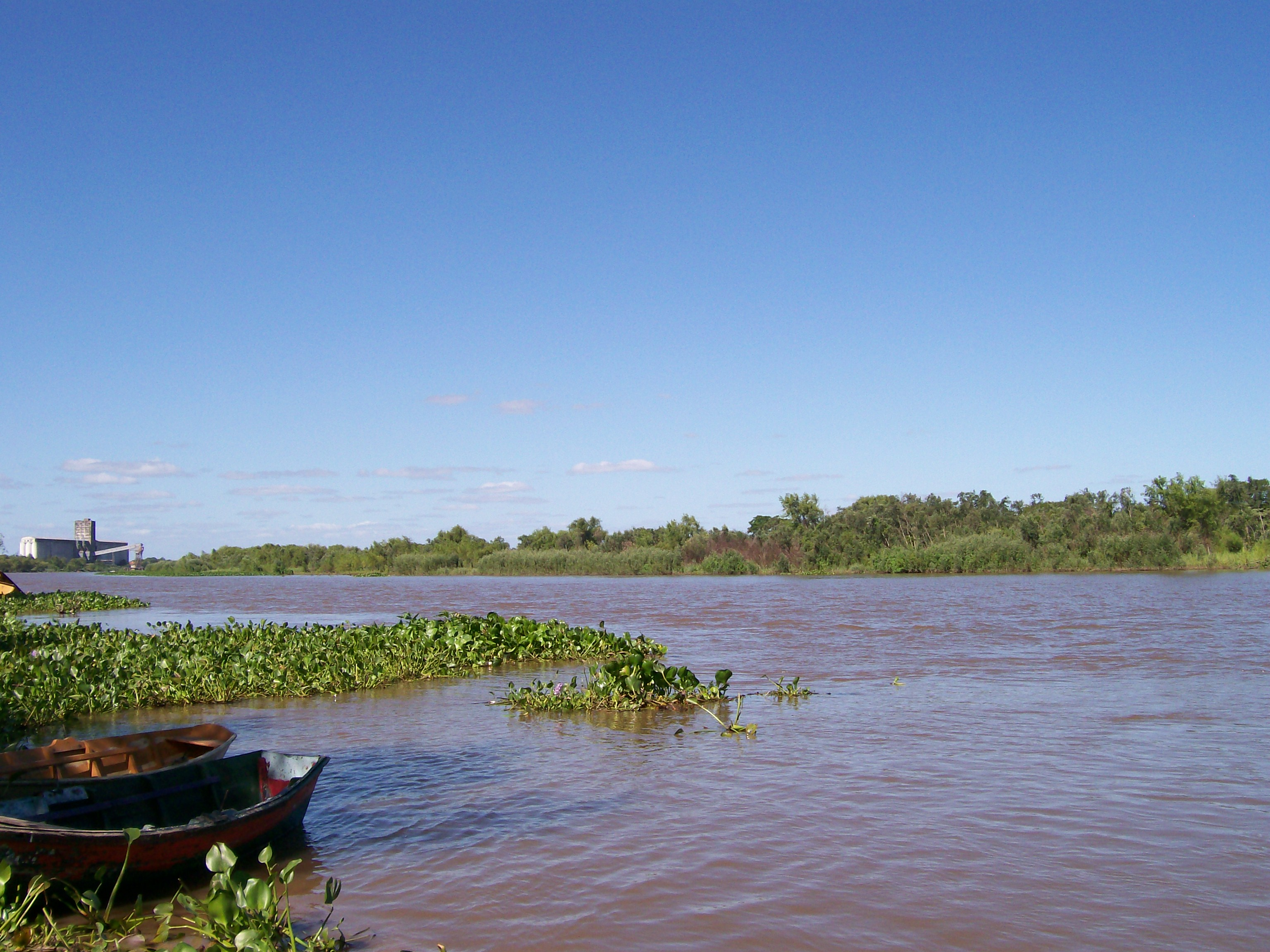 Riacho Barranqueras (Barranqueras river) in Barranqueras (Provincia del Chaco, Argentina) viewpoint. You can see the silos of Barranqueras and Santa Rosa island across the river. The photo points to the North (beginning of the river).